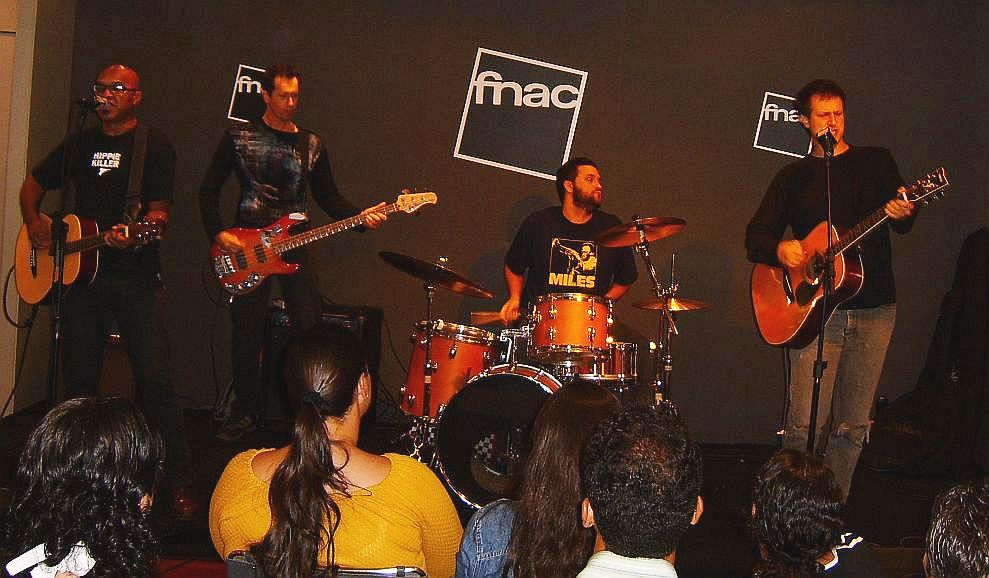 Photo: the Brazilian rock band Plebe Rude, taken in November, 29, 2006, in Brasilia, Brazil